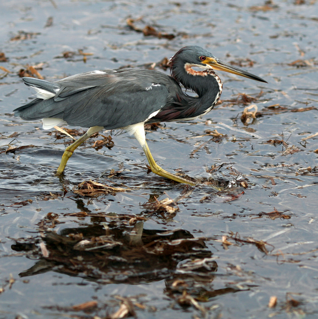 Tricolored heron wading at Fred Howard Park, Tarpon Springs, FL